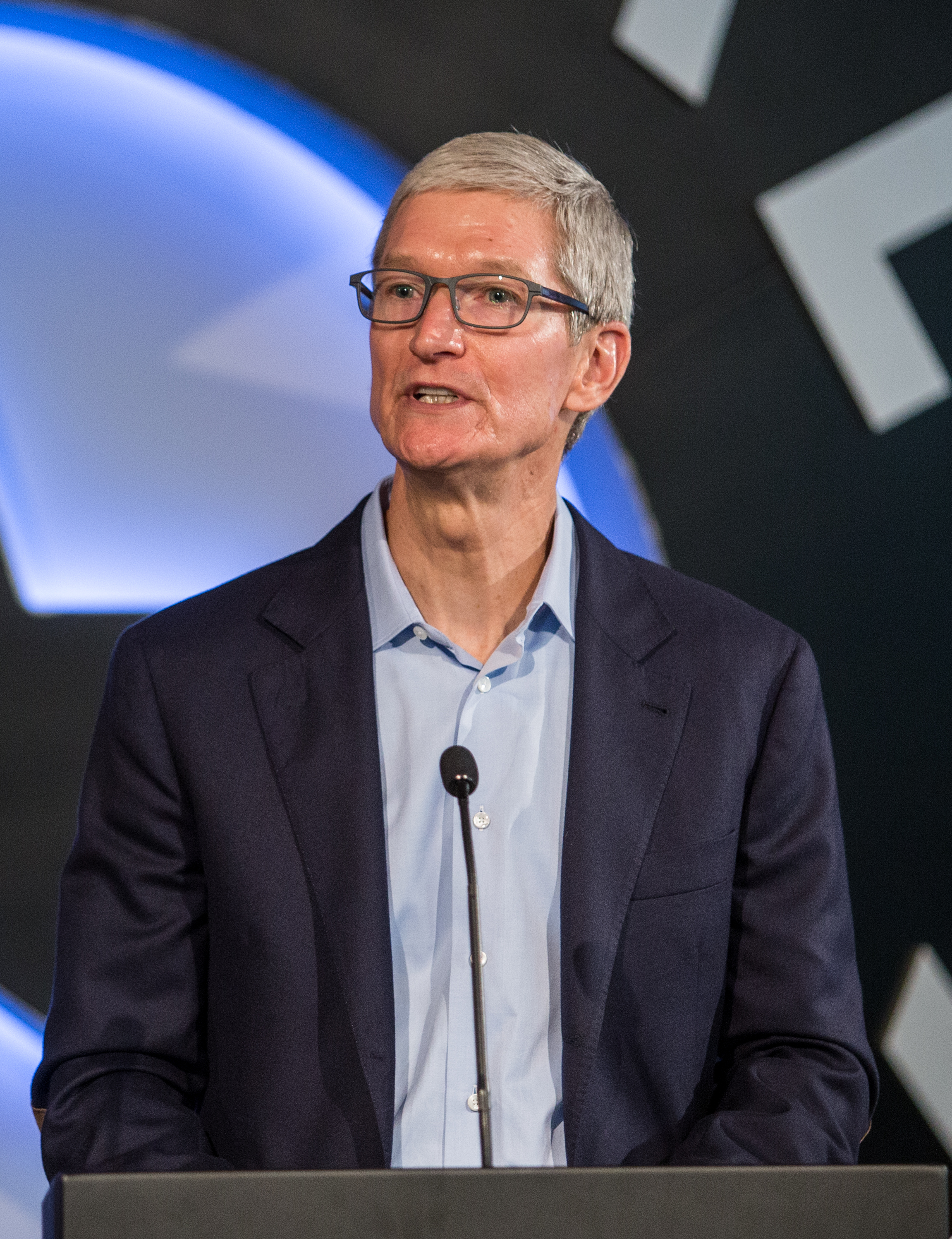 Apple CEO Tim Cook and Austin Community College (ACC) President/CEO Dr. Richard Rhodes join Austin Mayor Steve Adler and State Senator Kirk Watson for an exciting announcement launching a new app development program at ACC on Friday, August 25, 2017 at the Capital Factory in downtown Austin, Texas.